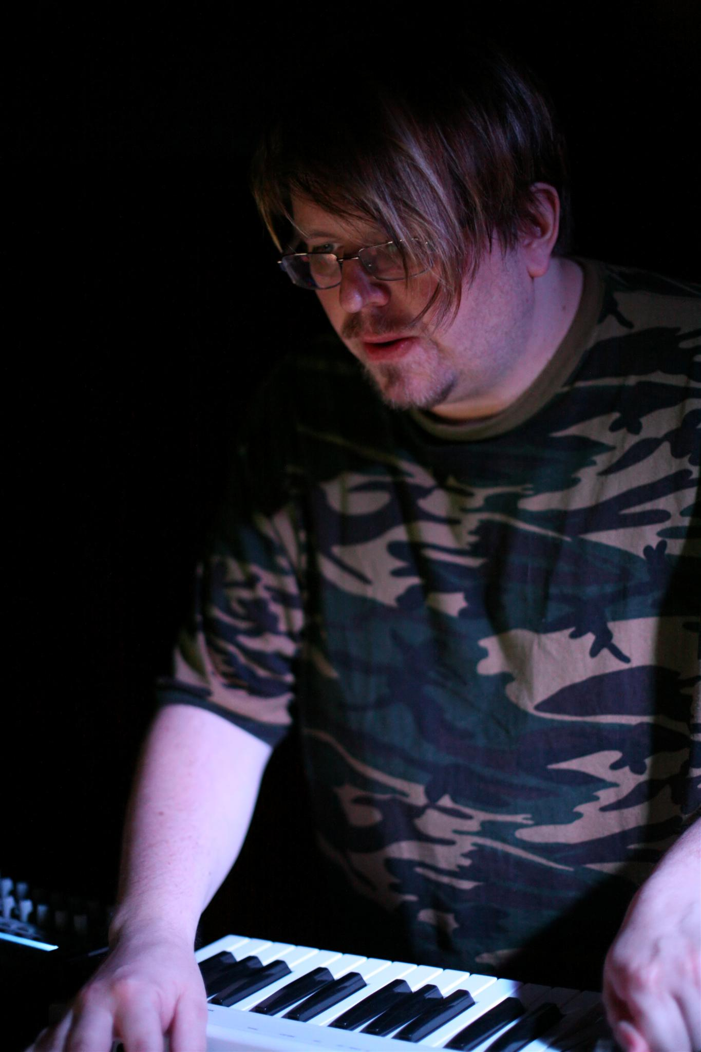 See where this picture was taken. [?]